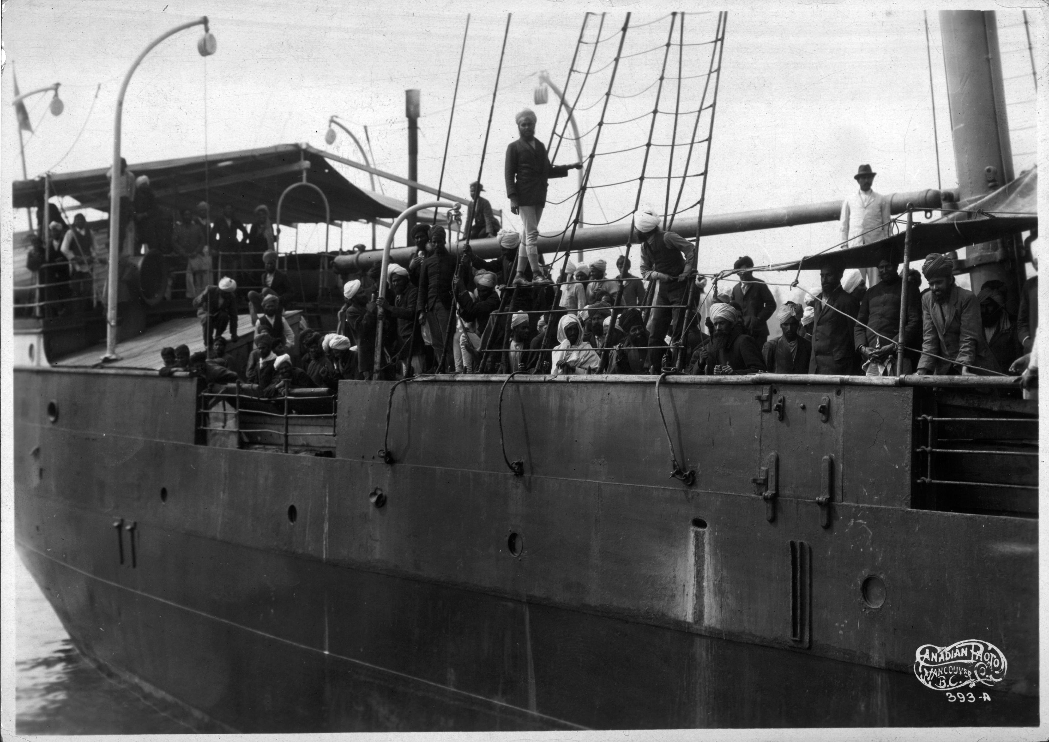 Komagata Maru incident VPL Accession Number: 127 Date: 1914 Photographer/Studio: Canadian Photo Company SUBJECTS: East Indians, Sikhs, Komagata Maru Incident, 1914, Ships Location: British Columbia - Vancouver Harbour More information on our historical photograph collection